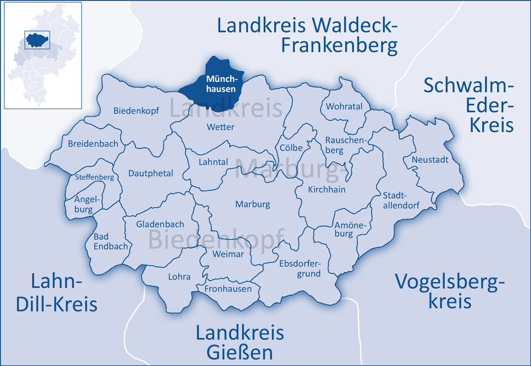 The map shows the municipal territory of Münchhausen in the district of Marburg-Biedenkopf.